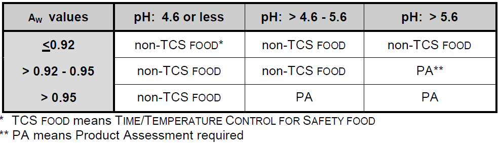 US FDA PHF Chart B